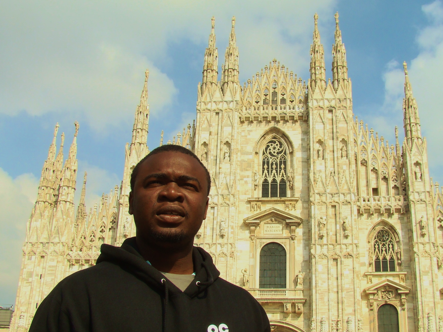 In front of Duomo, Milan, during Milan Design Week 2013